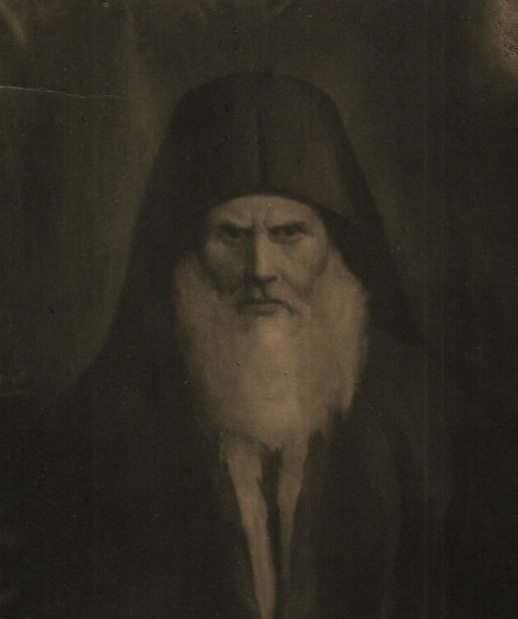 Neofit Rilski (1793-1881)